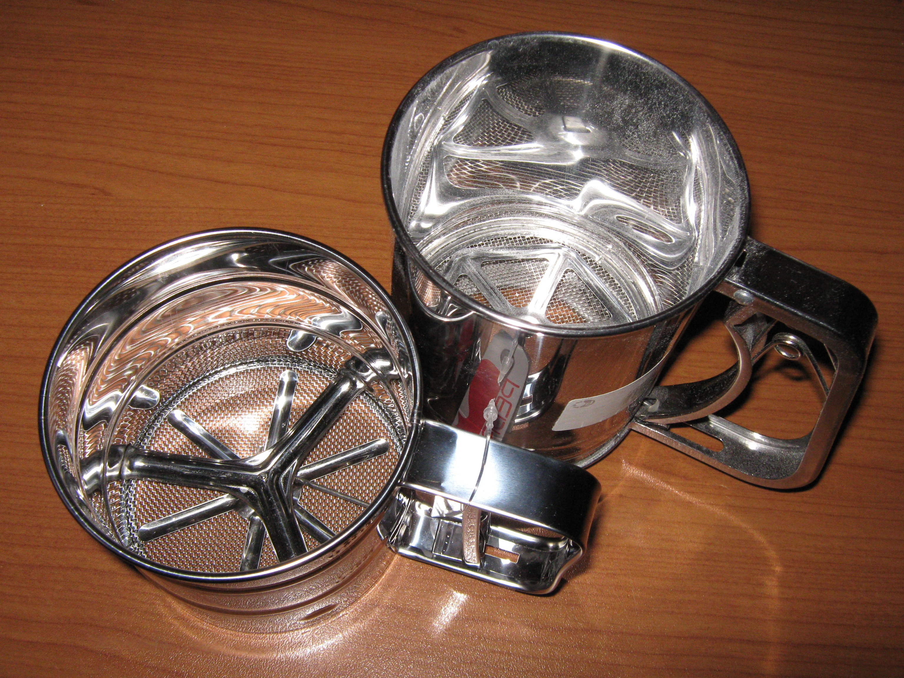 Sieve, Flour Sifter